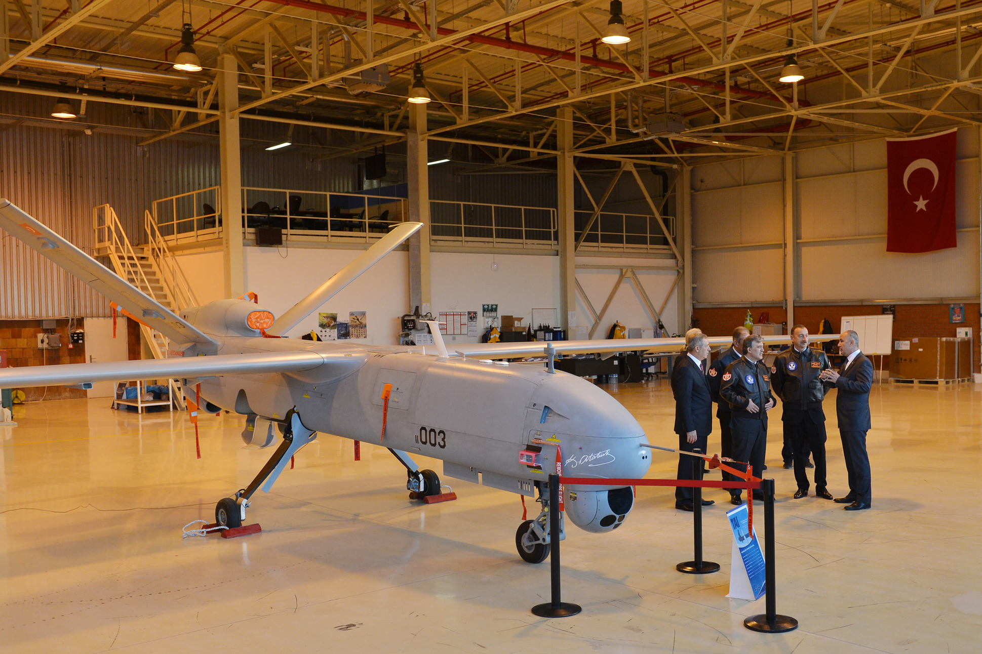 Turkish President Abdullah Gül and Azerbaijani President Ilham Aliyev receiving information from authorities about TAI ANKA, Turkish Aerospace Industries, Inc., Ankara, Turkey.